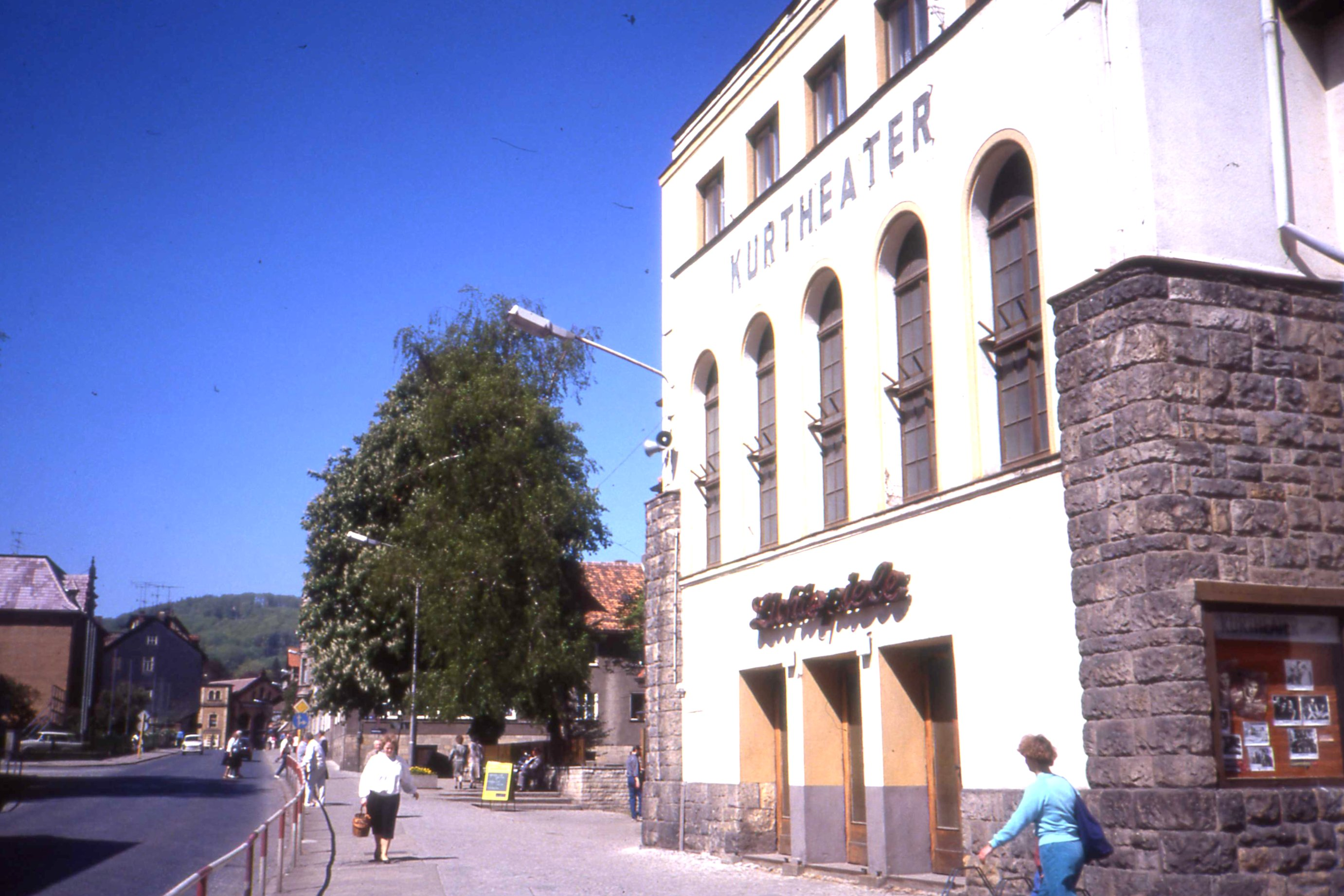 I seem to have visited this location on three occasions - twice in 1990 and once in 1995.